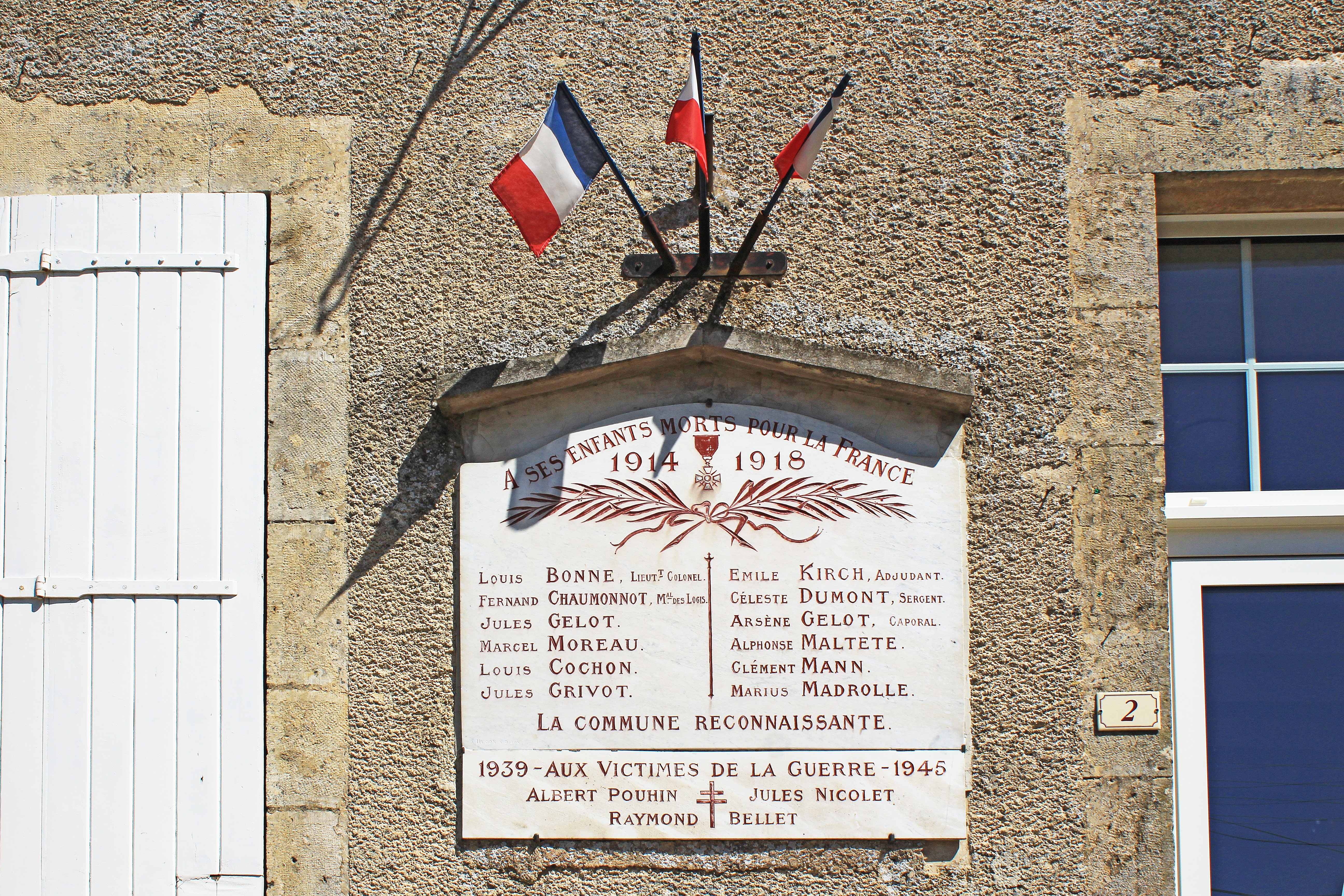 War tablet on the old townhall in Poiseul-la-Ville